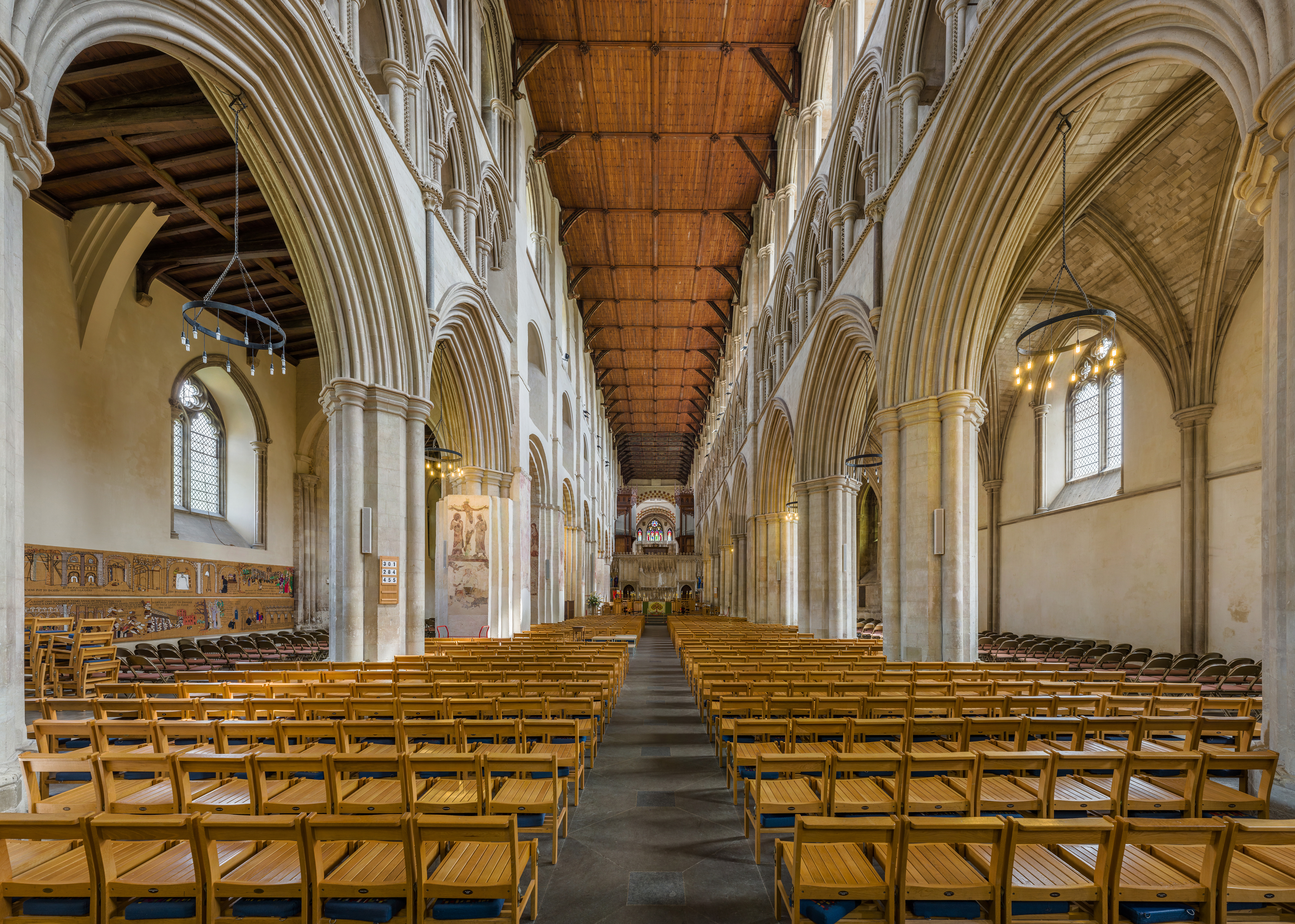 The nave of St Albans Cathedral in Hertfordshire, England.